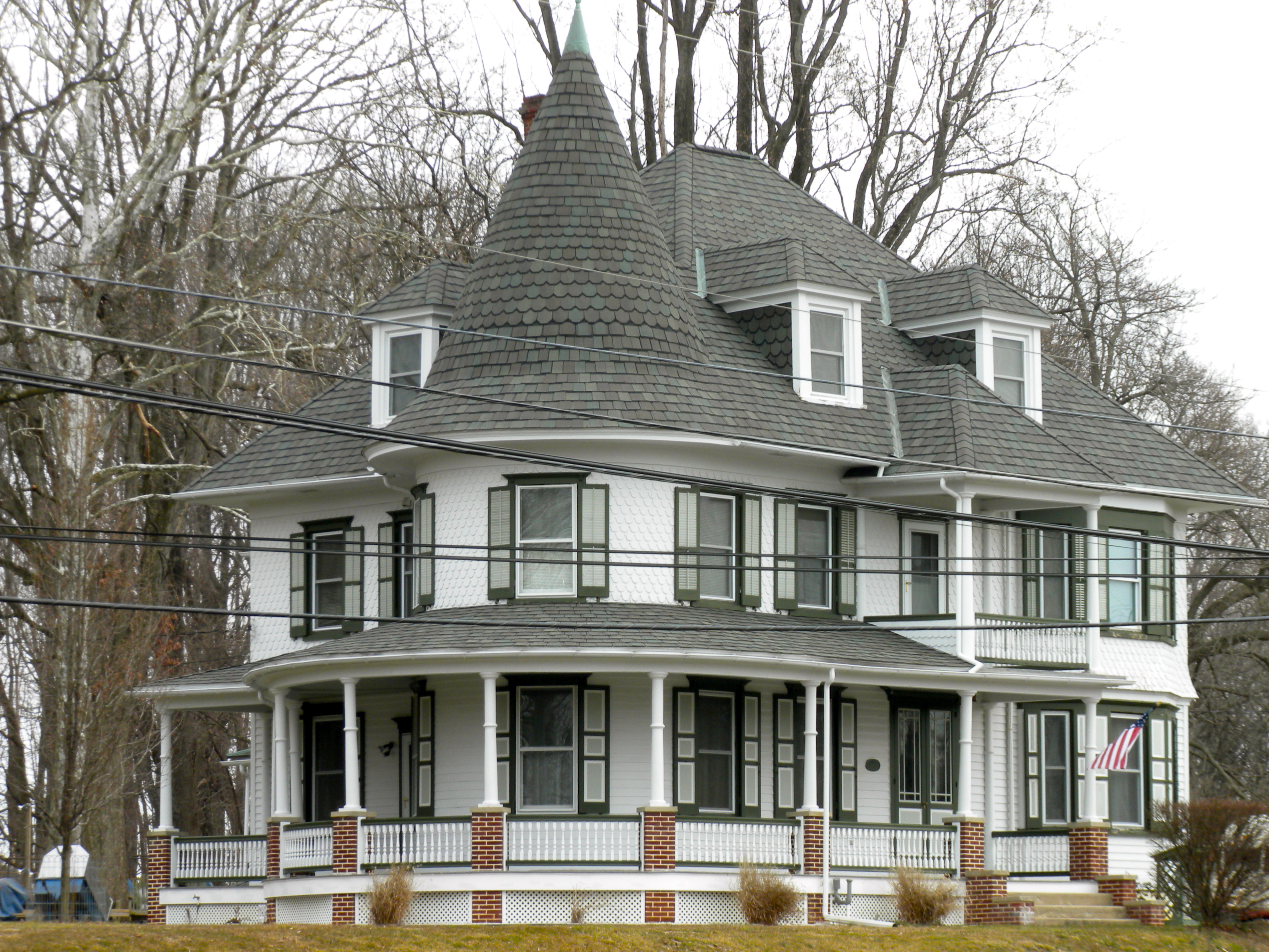 Harry DeHaven House in Chester County, PA on NRHP since September 18, 1985. At Strasburg Road near Coatesville, but in East Fallowfield Township. Part of a series of 3 Victorian Houses in an otherwise "colonial" area.